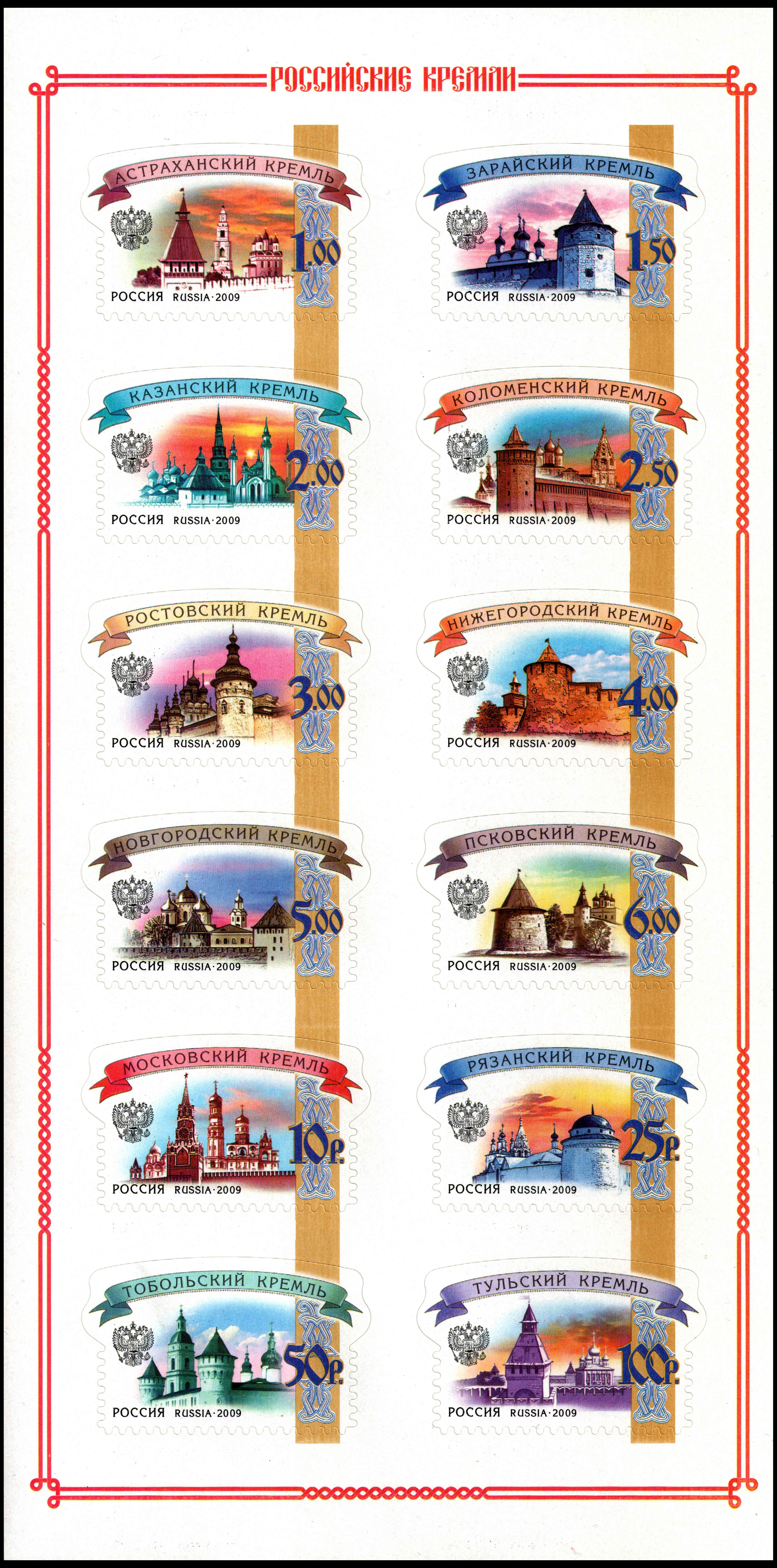 The sixth definitive issue of postage stamps of Russian Federation. KremlinsThe stamps of Russia: 12 stamps of the definitive issue in 1 sheetlet, 1 October 2009, PTC Catalogue No 1360–1371, Michel No 1592–1603 (Klb. 1592–1603). Self-adhesive coated paper. Offset printing, multicoloured. Perforation: 11½ . The size of the stamps: 38×23. The size of the sheetlet: 100×202. The print run of the sheetlet: 150,000. No 1360, 1.00 ruble: Astrakhan KremlinNo 1361, 1.50 rubles:Zaraysk KremlinNo 1362, 2.00 rubles: Kazan KremlinNo 1363, 2.50 rubles: Kolomna KremlinNo 1364, 3.00 rubles: Rostov KremlinNo 1365, 4.00 rubles: Nizhny Novgorod KremlinNo 1366, 5.00 rubles: Novgorod KremlinNo 1367, 6.00 rubles: Pskov KremlinNo 1368, 10.00 rubles: Moscow KremlinNo 1369, 25.00 rubles: Ryazan KremlinNo 1370, 50.00 rubles: Tobolsk KremlinNo 1371, 100.00 rubles: Tula Kremlin